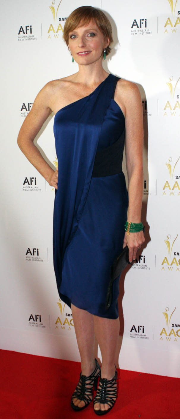 Alexandra Schepisi, 2012, AACTA Awards Results From Sydney, Australia.